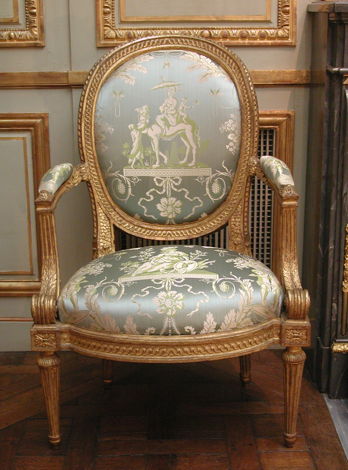 French, Paris; Armchair; Woodwork-Furniture